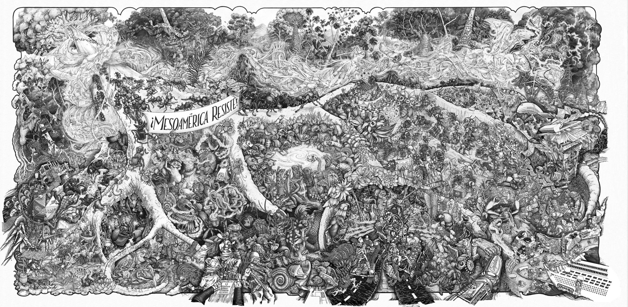 "¡Mesoamérica Resiste!" by the Beehive Design Collective. The Beehive Design Collective is a volunteer-driven non-profit art collective that uses graphical media as educational tools to communicate stories of resistance to corporate globalization For more information, visiti: CC 3.0 license